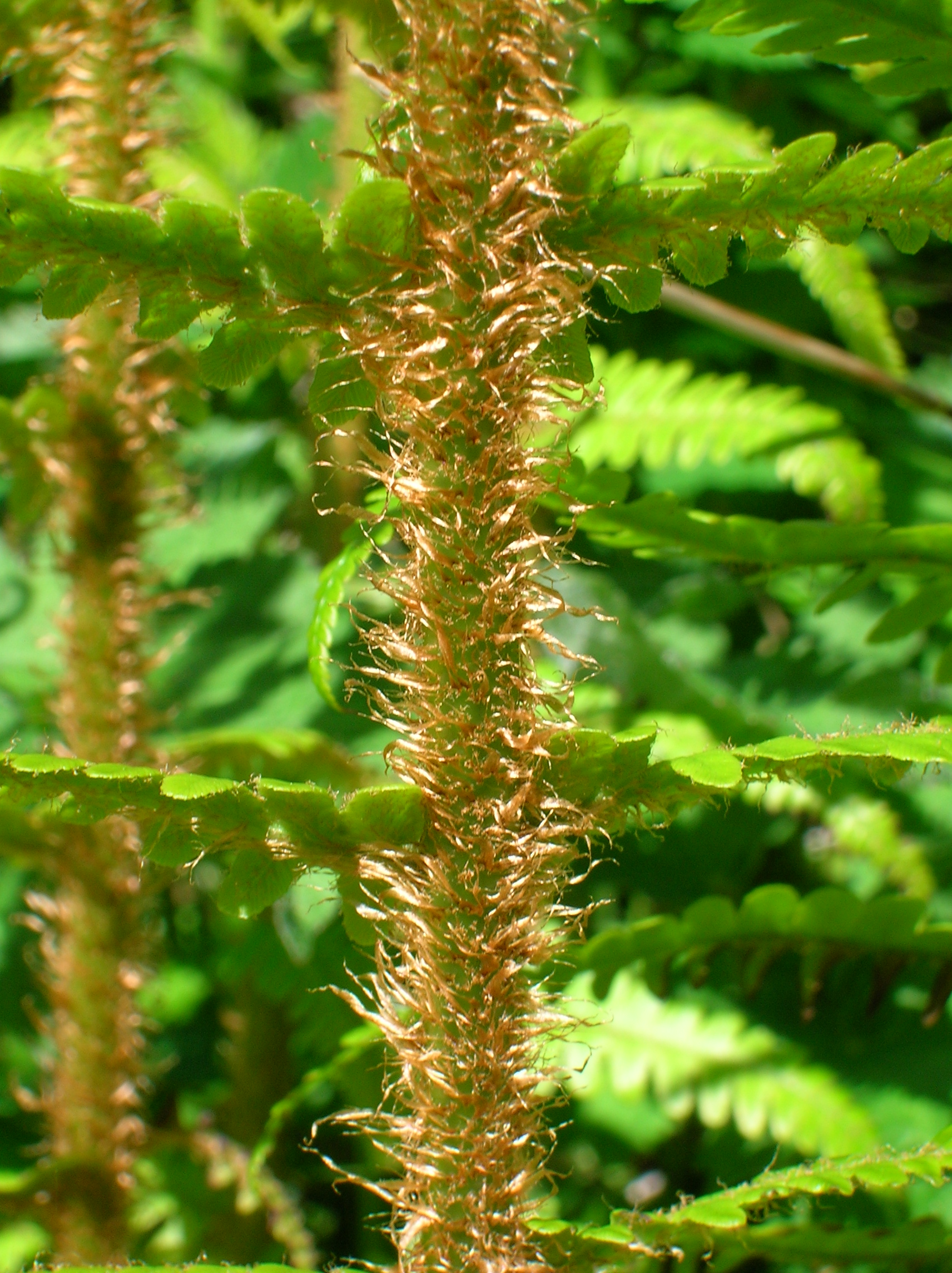 Ramenta on th rachis of Dryopteris affinis. Ayrshire. Scotland.